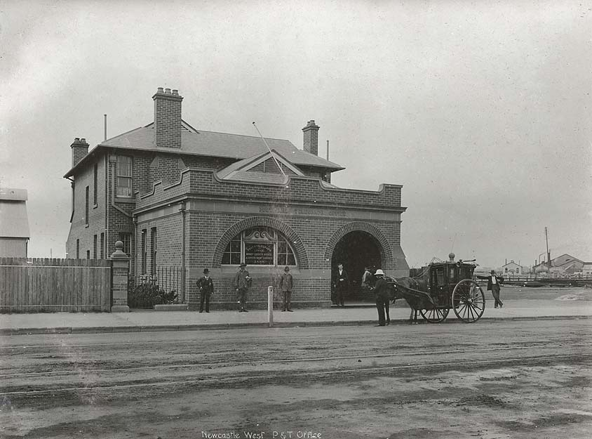 Newcastle West Post and Telegraph Office Dated: No date Digital ID: 4346_a020_a020000085 Rights: We'd love to hear from you if you use our photos. Many other photos in our collection are available to view and browse on our website using Photo Investigator.